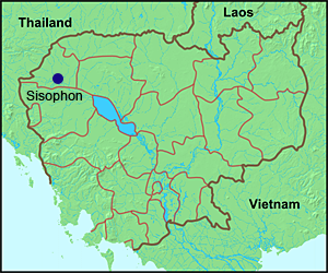 Location of Sisophon